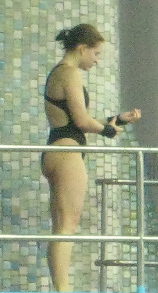 Third day of the 2013 FINA Diving World Series in Moscow. April 28, 2013.